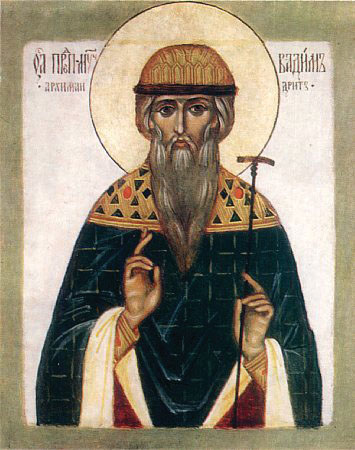 St. (ortodox icon)